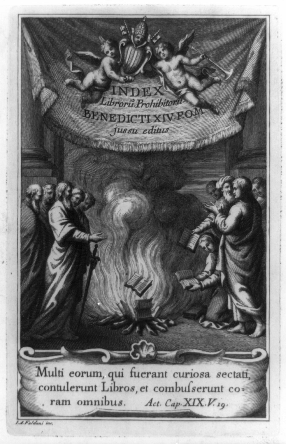 Title: Multi eorum qui fuerant curiosa sectati ... / A. Faldoni, inv. Abstract/medium: 1 print : woodcut engraving.